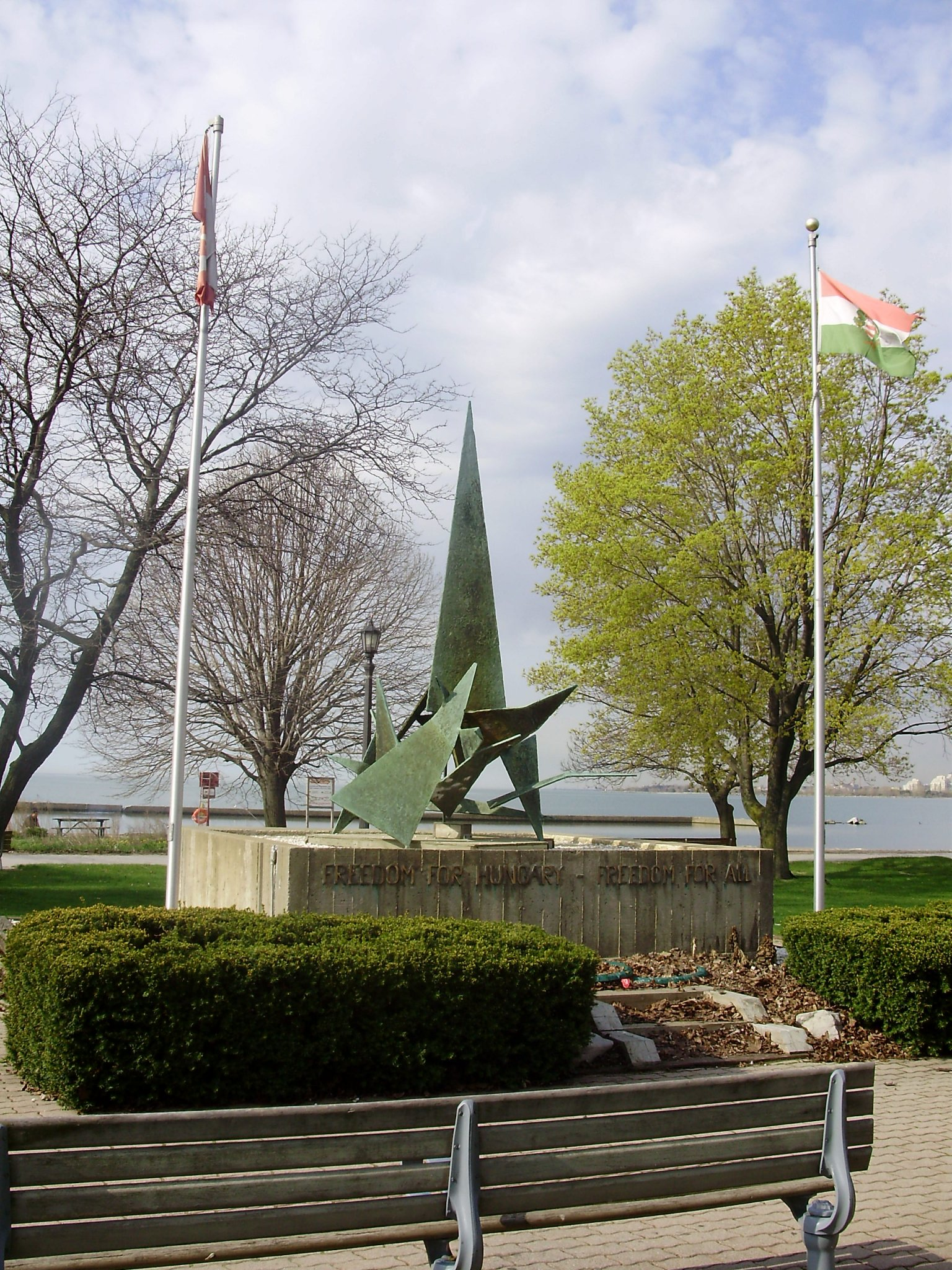 A monument in Toronto's Budapest Park, raised in remembrance of the 1956 Hungarian uprising.